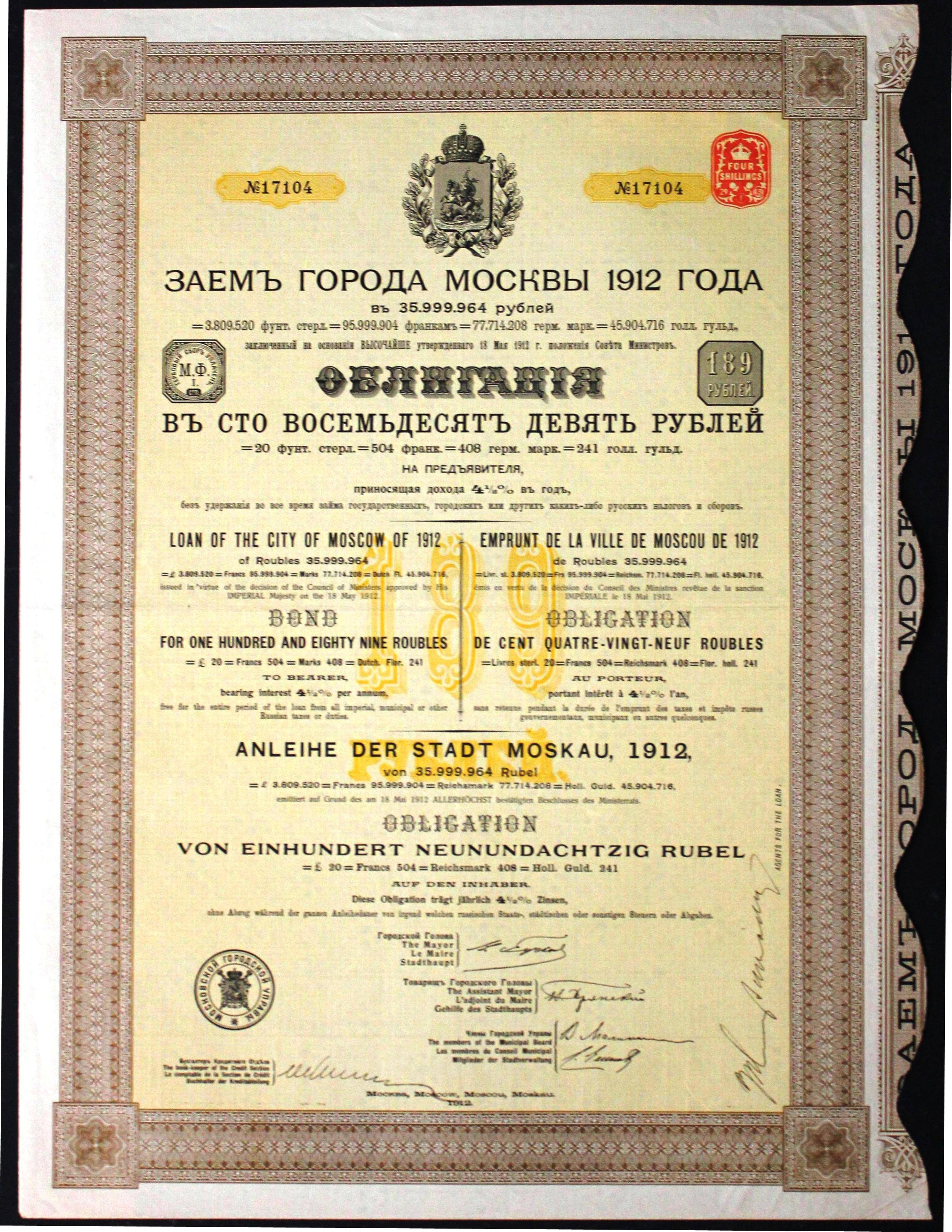 Loan of the City of Moscow, issued 1912